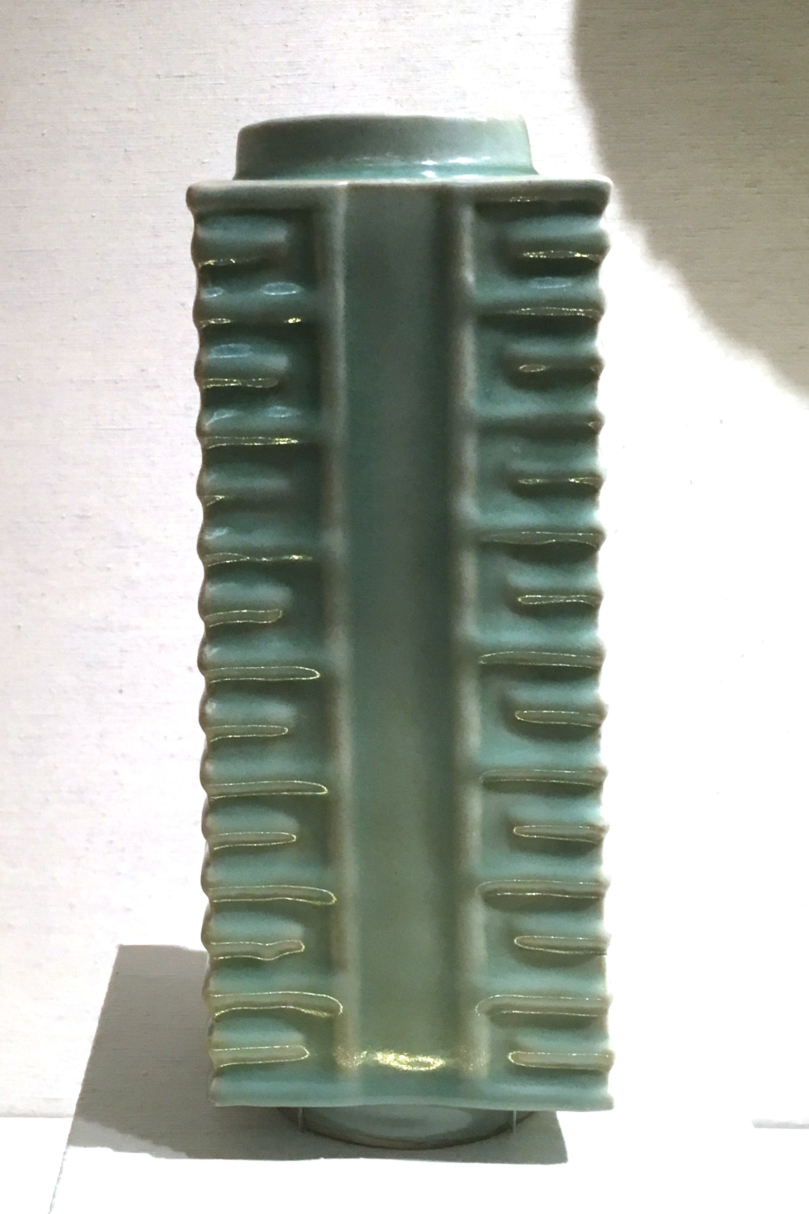 China; Vase; Ceramics